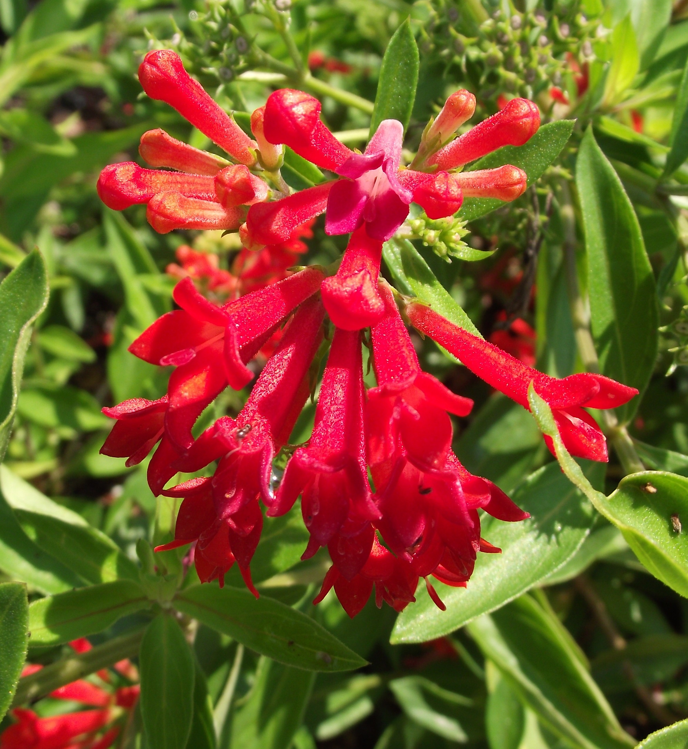 Bouvardia ternifolia at New York Botanical Garden, Bronx, NY, USA